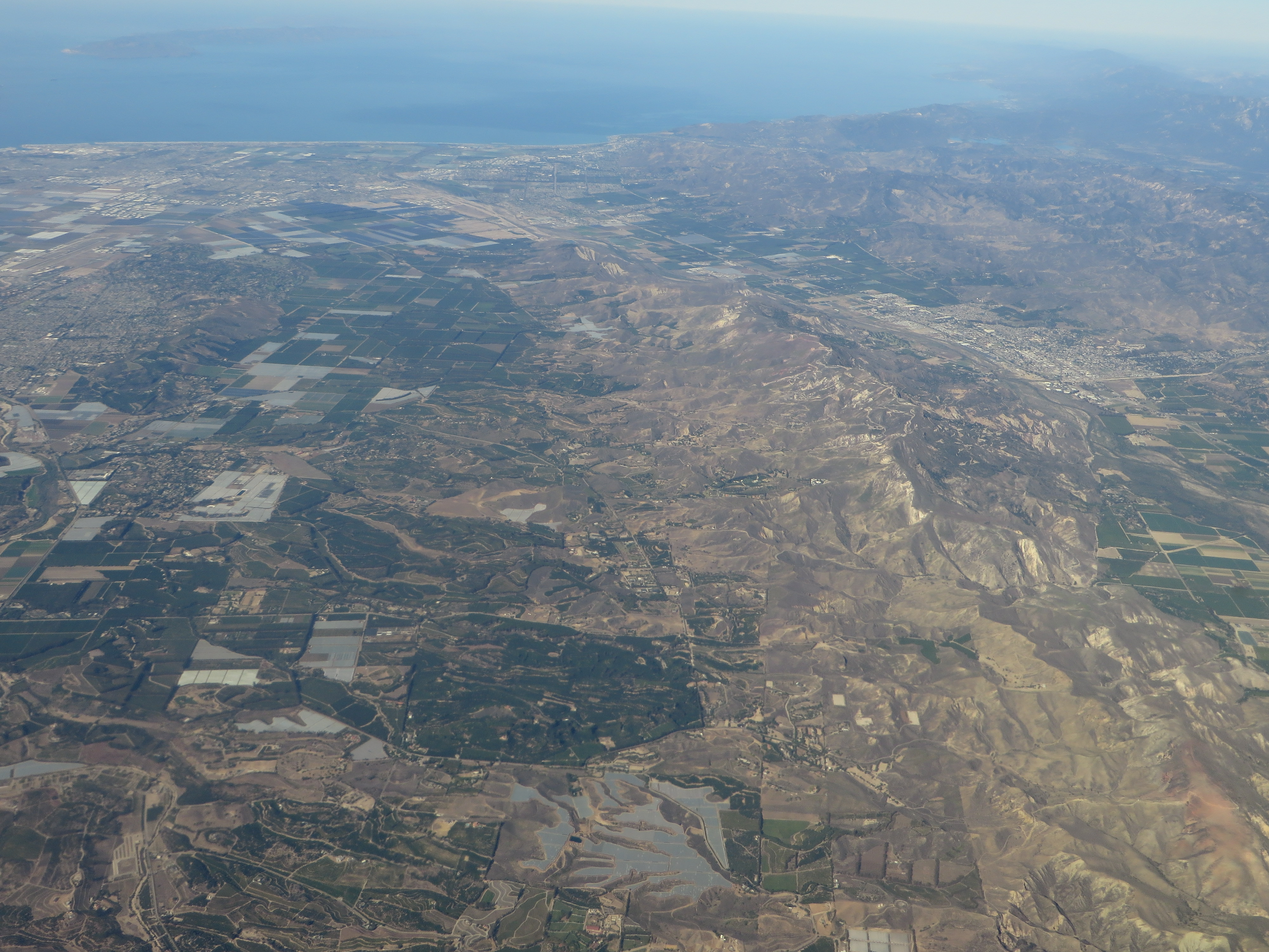 The Oxnard Plain is a large alluvial coastal plain in southwest Ventura County, California, United States that that covers over 200 square miles (520 km2).